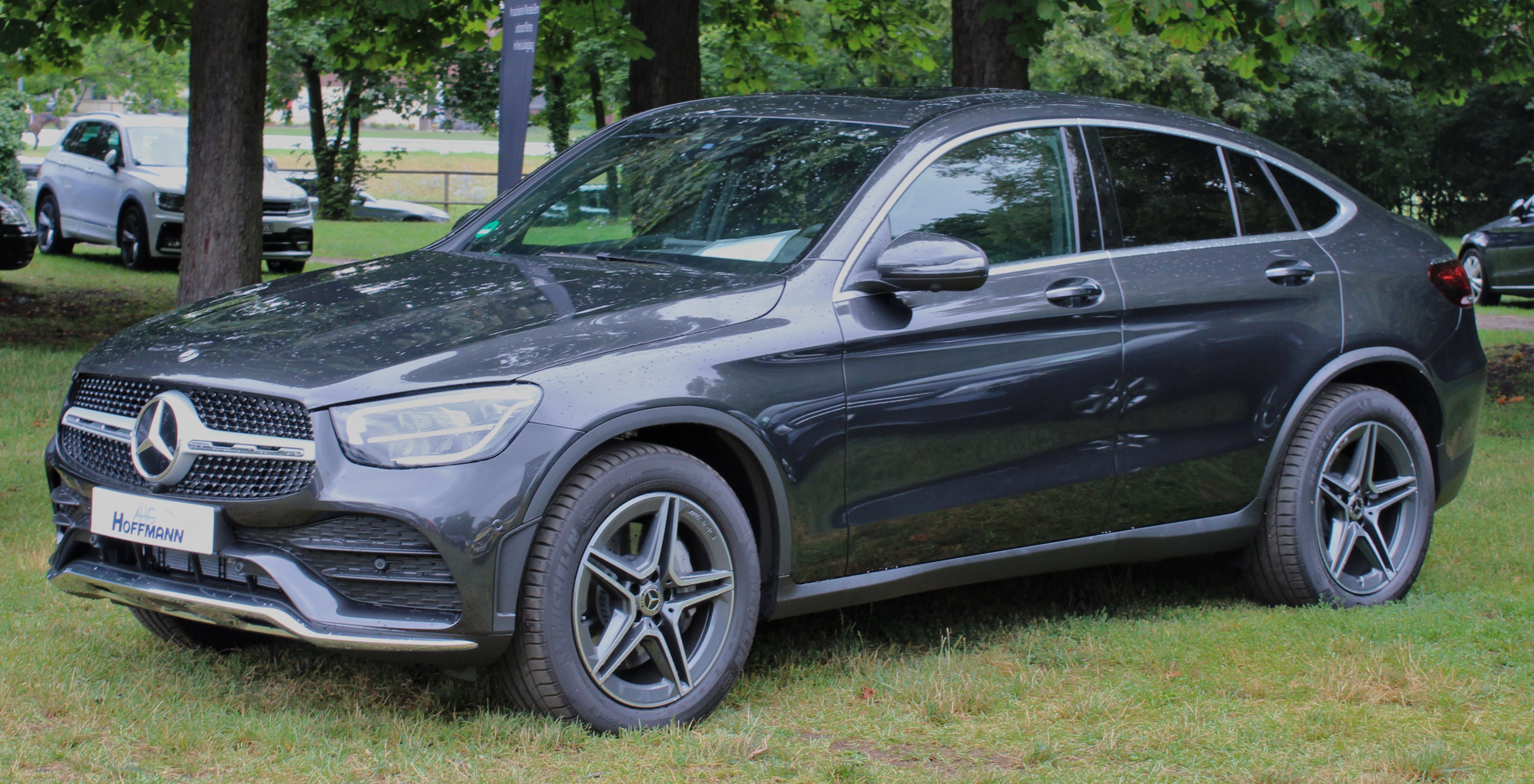 Mercedes-Benz C253 at Schloss Monrepos 2019